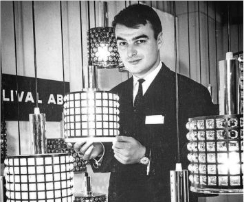 Photograph of the Finnish entrepreneur Stig Lindström from Oy Lival Ab.